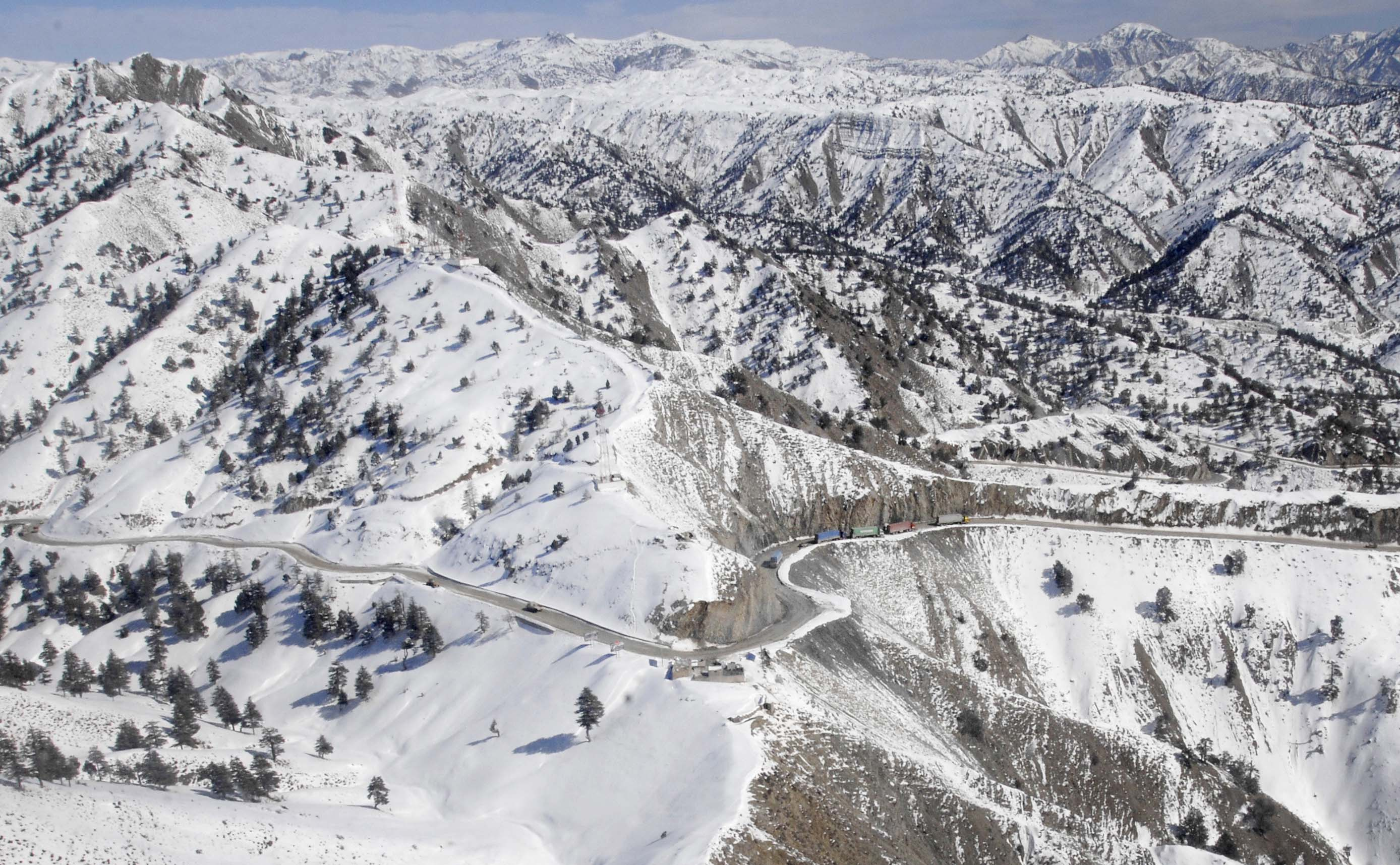 Semi-trucks hauling goods to eastern Afghanistan travel along the narrow and dangerous "K-G Pass" that works its way through steep mountains and connects the Khowst and Paktia provinces. A $100 million, 62-mile improved road, funded by the U.S. Agency for International Development, is slated to start construction through the pass this summer. (Photo ID: 153811)